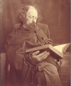 A. Tennyson (1875) albumen print 25.4 x 20.3 cm.